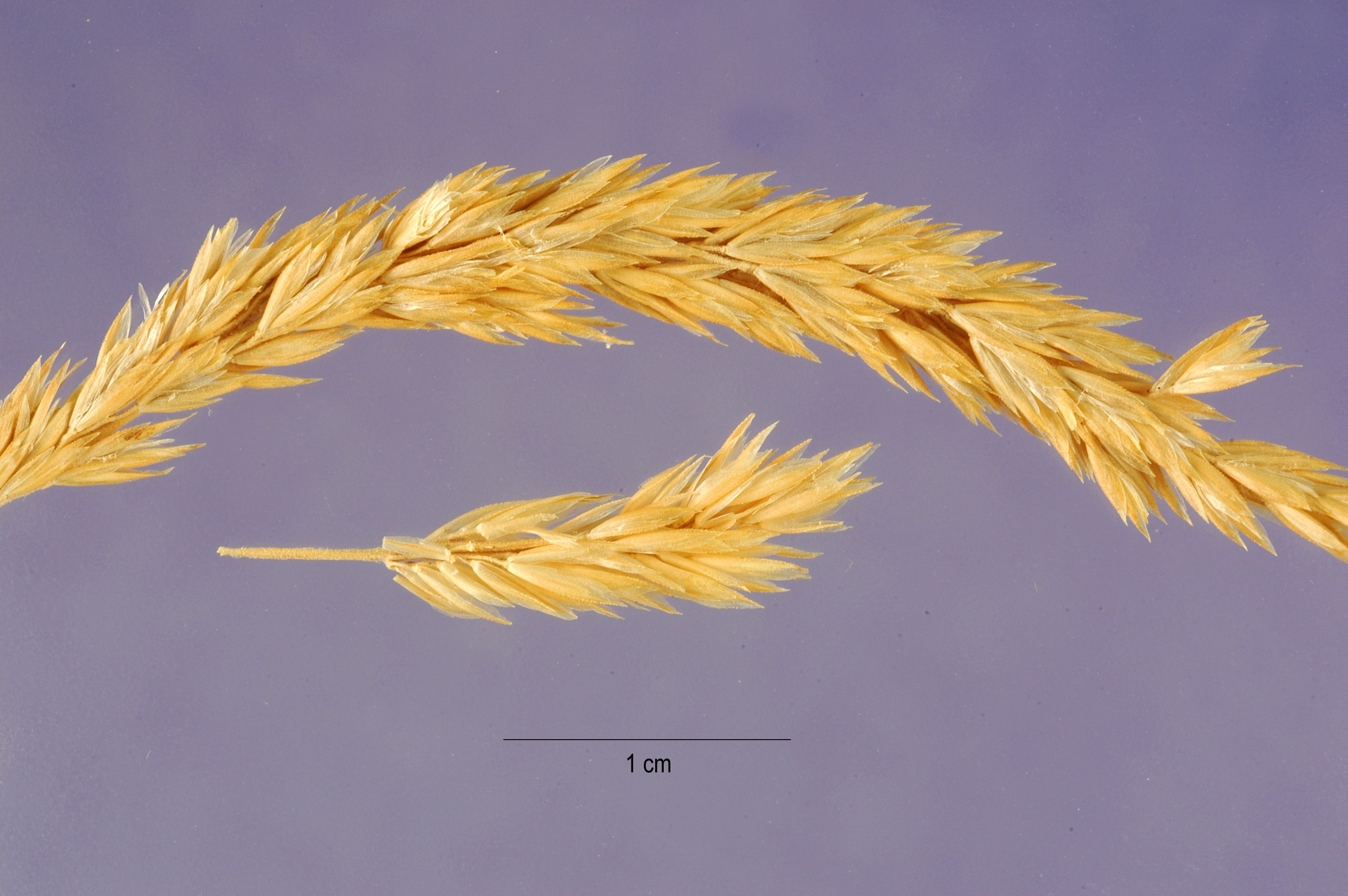 Koeleria macrantha inflorescens